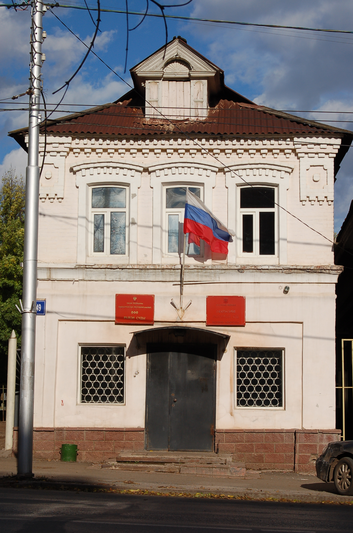 Ufa District Court are being located in building now.